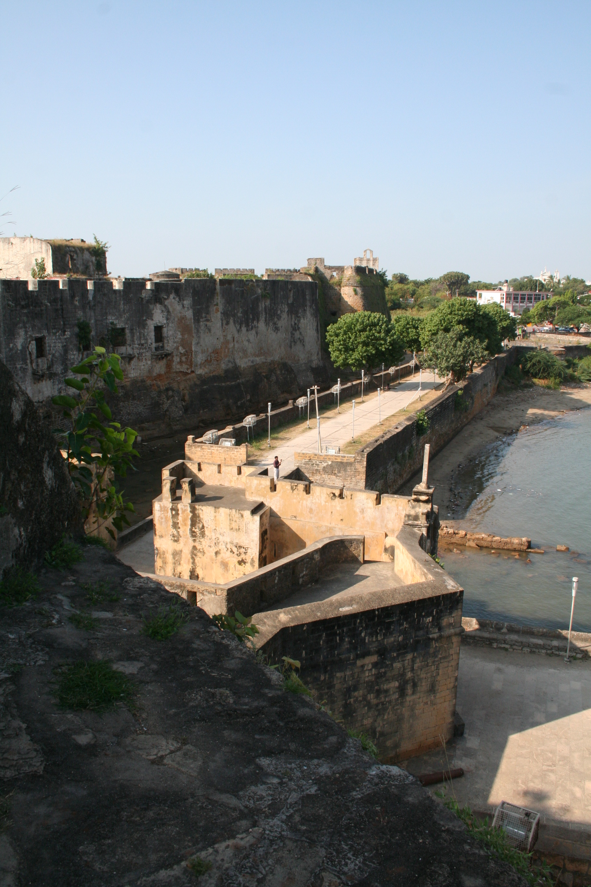 Portuguese Fort